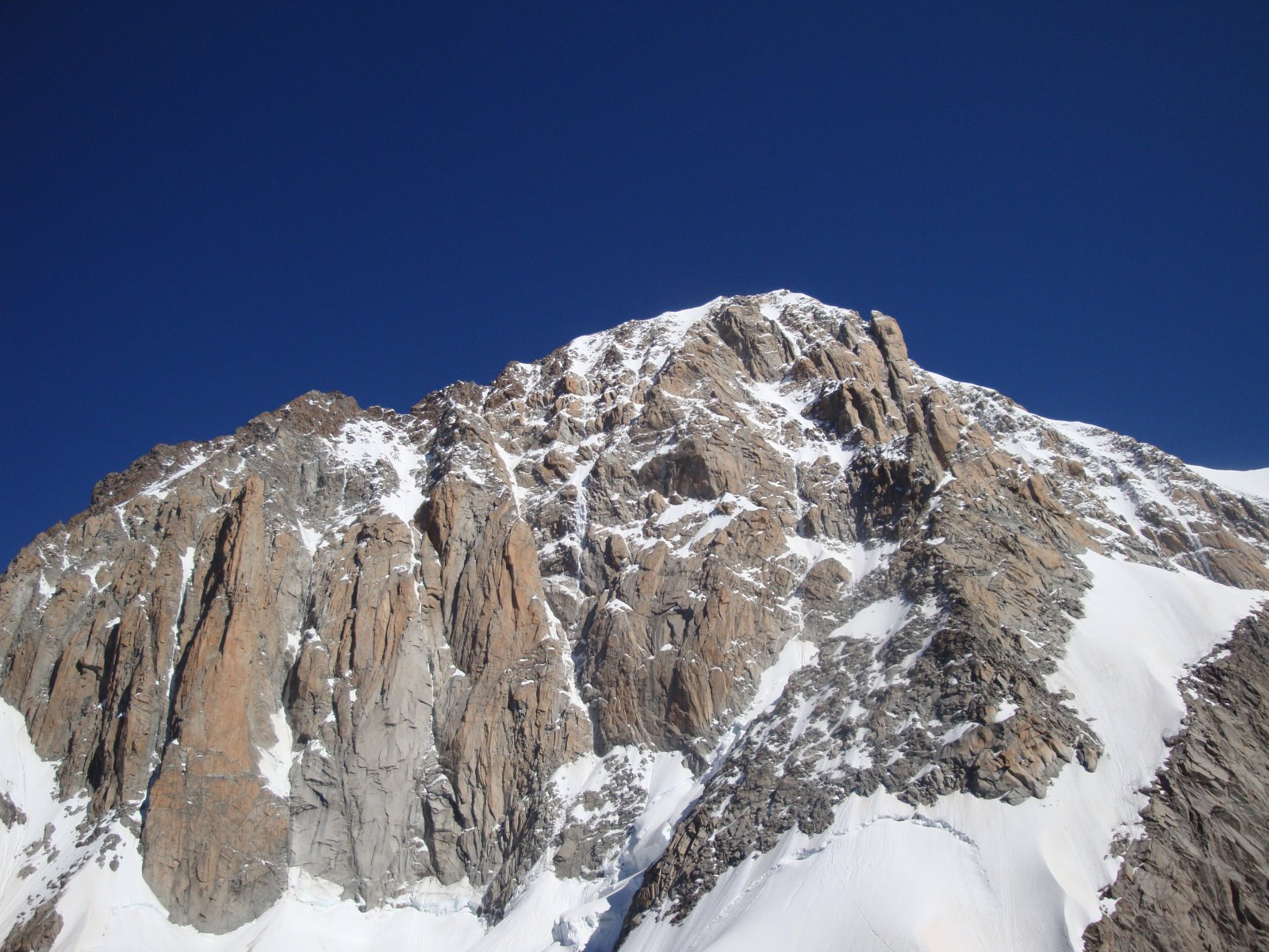 Mont Blanc de Courmayeur - Brouillard face